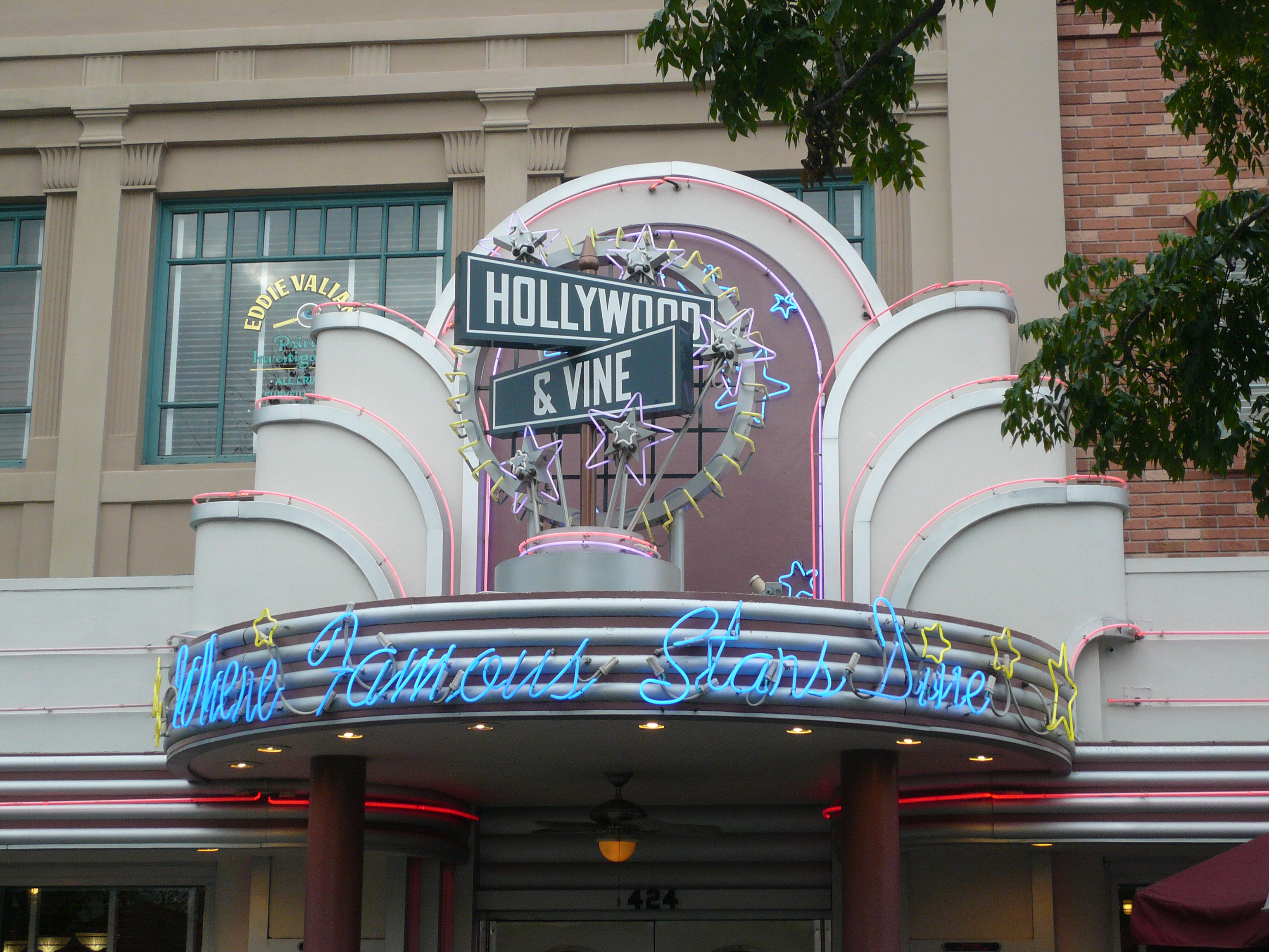 The entrance to Hollywood & Vine, a restaurant in Disney's Hollywood Studios